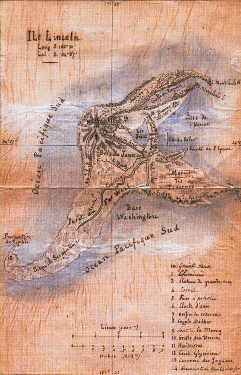 An illustration from Jules Verne's novel "The Mysterious Island" (1873-74) drawn by Jules Férat.